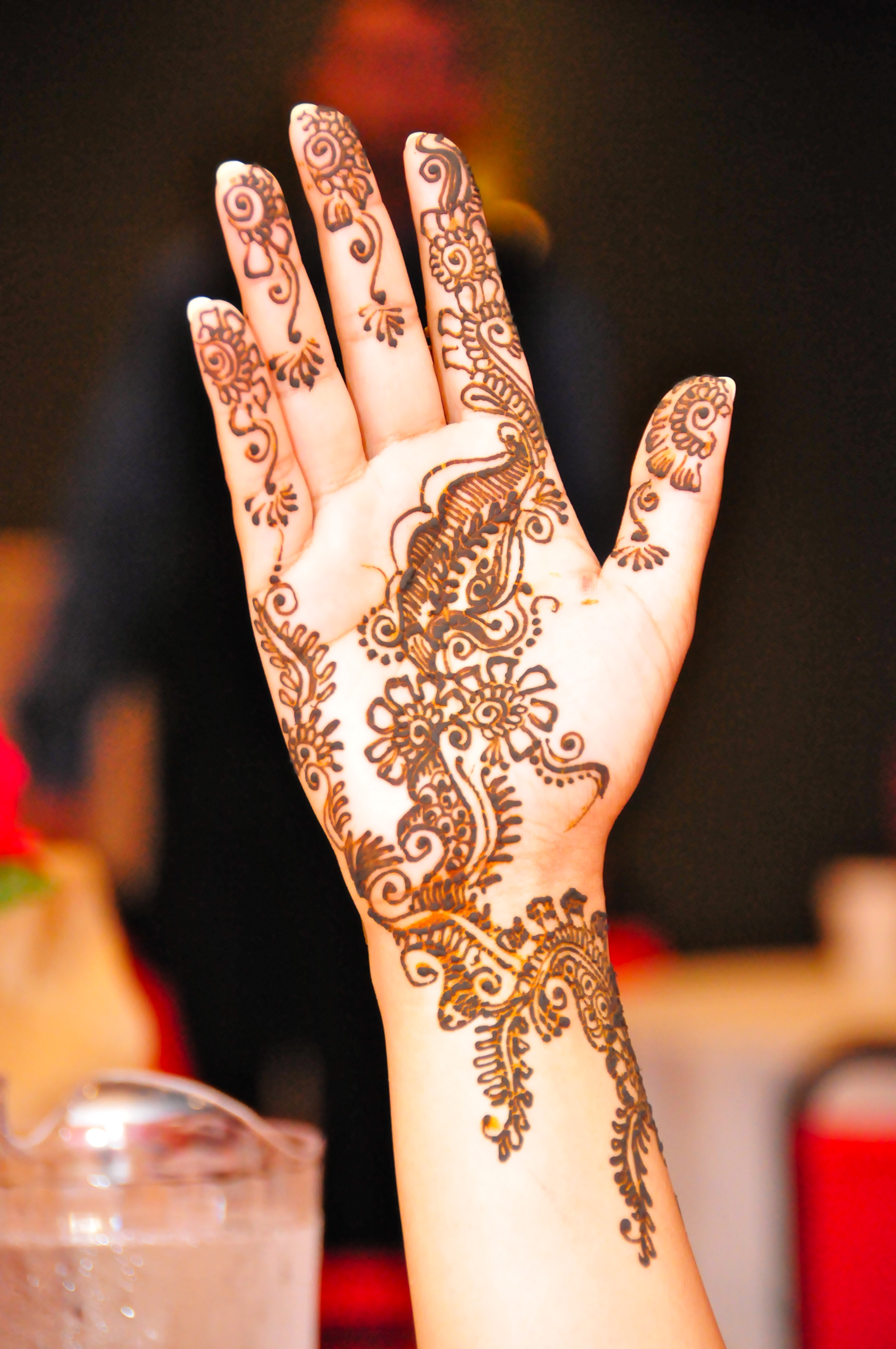 A hand with Mehndi design on